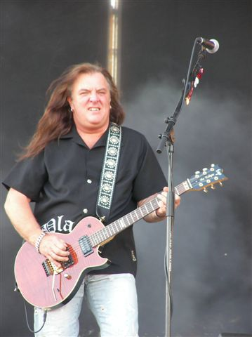 Pretty Maids